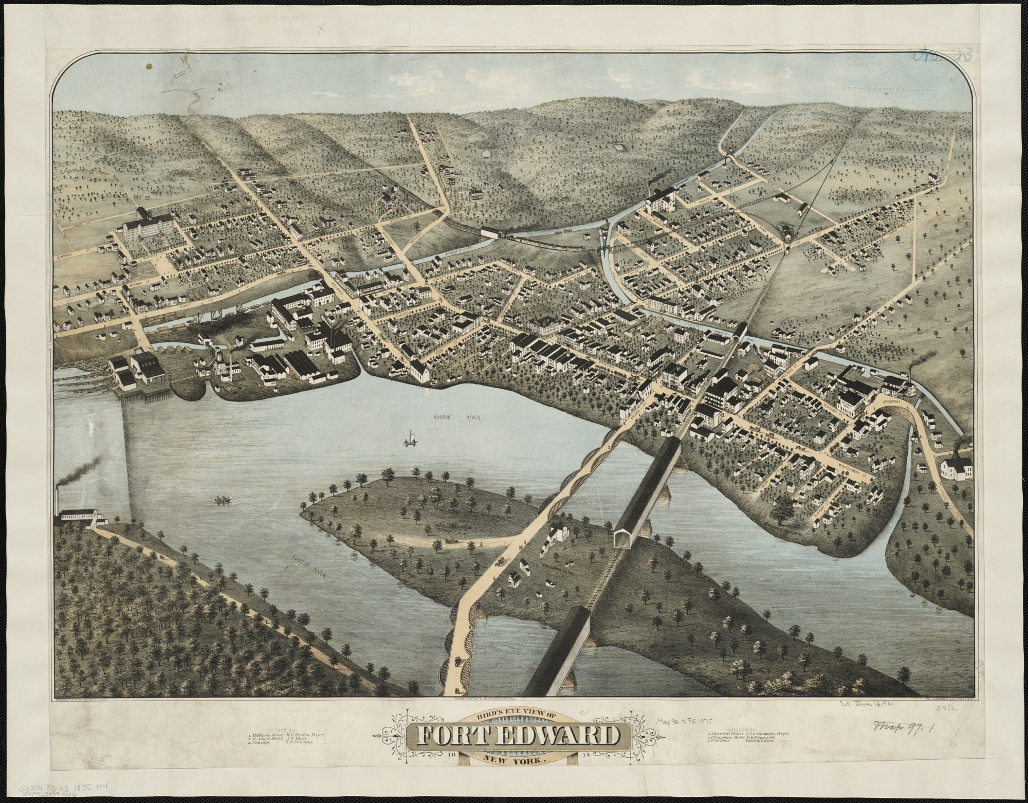 Zoom into this map at . Author: H.H. Bailey & Co. Publisher: H.H. Bailey & Co. Date: [1875] Location: Fort Edward (N.Y.) Scale: Not drawn to scale. Call Number: G3804.F6A3 1875.H4